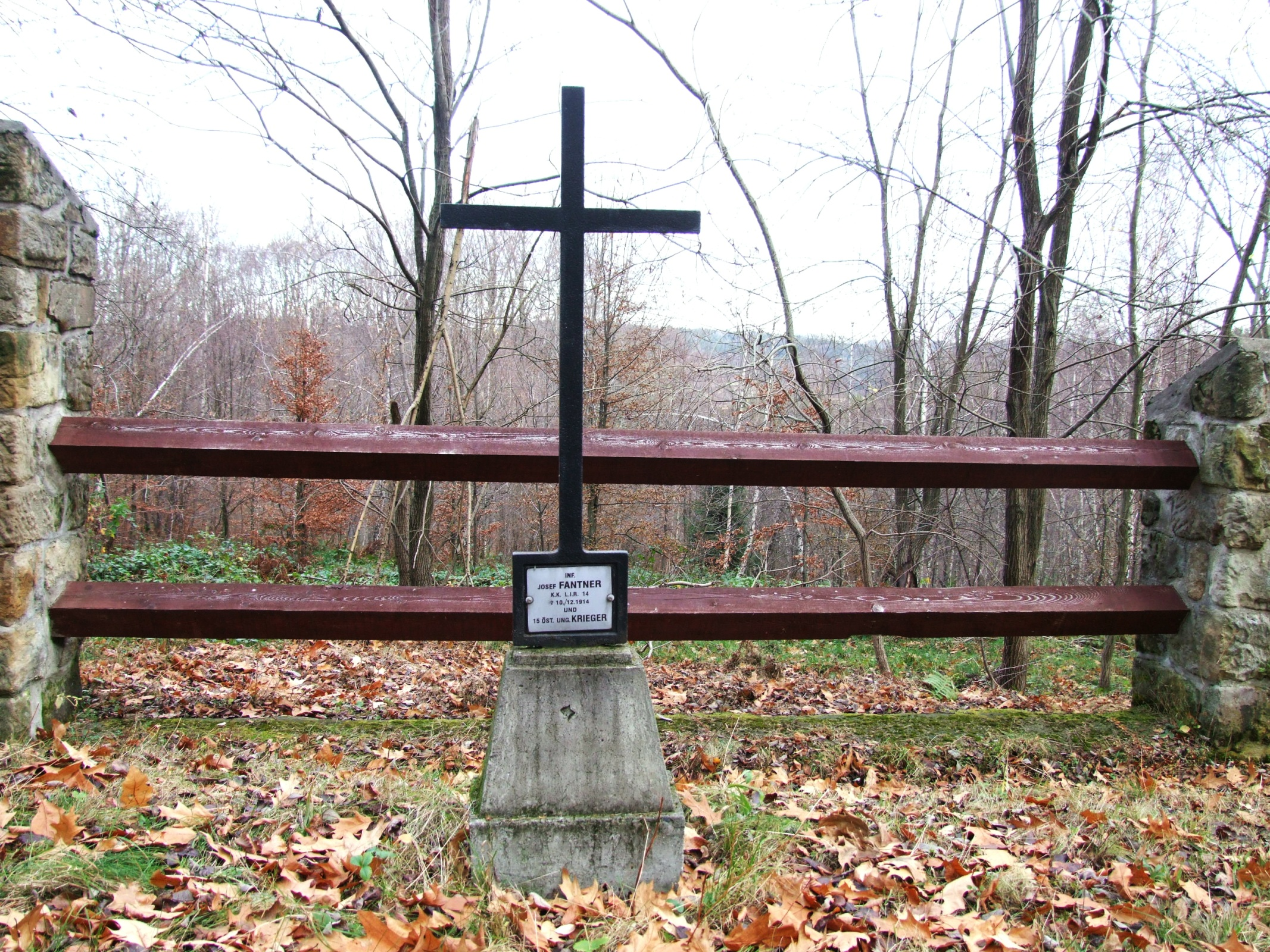 World War I Cemetery nr 300 in Rajbrot-Kobyła